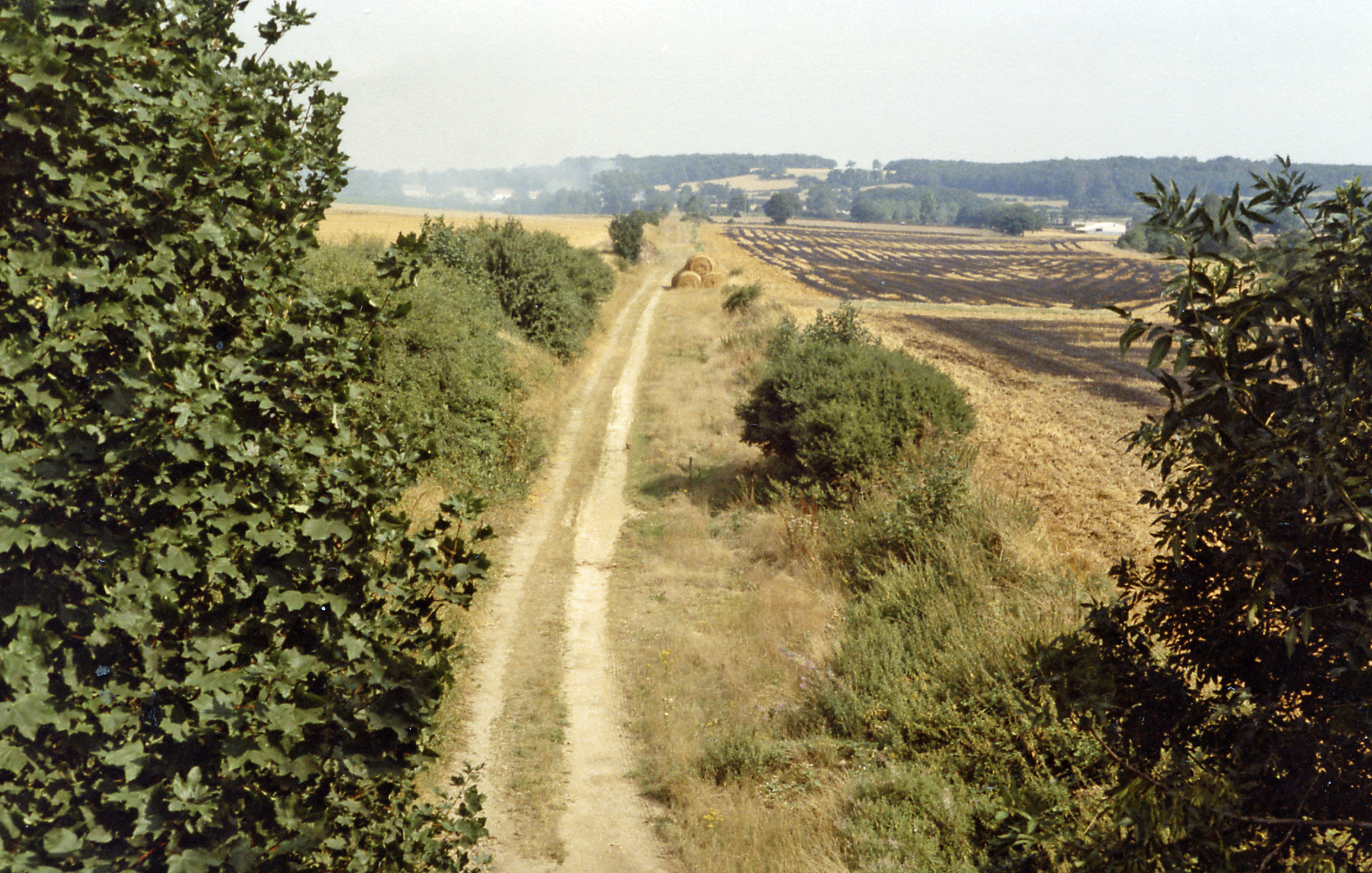 Track of ex-GN Grantham - Honington - Lincoln line at Caythorpe, 1983. View northward, towards Lincoln, the station having been behind the photographer. The station had been closed from 10/9/62 (goods 15/6/64) and the relatively important through line was abandoned between Honington and Lincoln from 1/11/65.